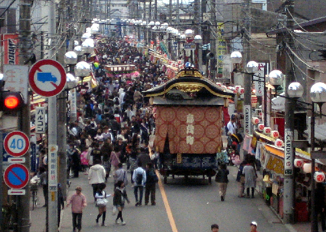 Otourou matsuri, a festival in Iruma, Saitama.